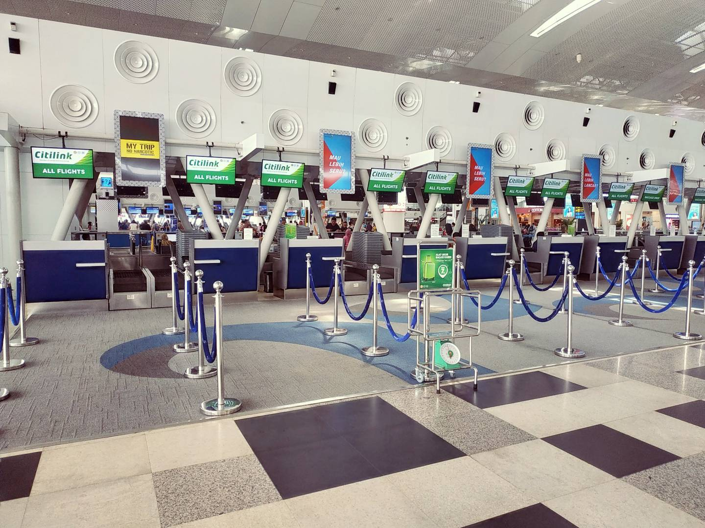 Citilink Check-in area of Kualanamu Airport.